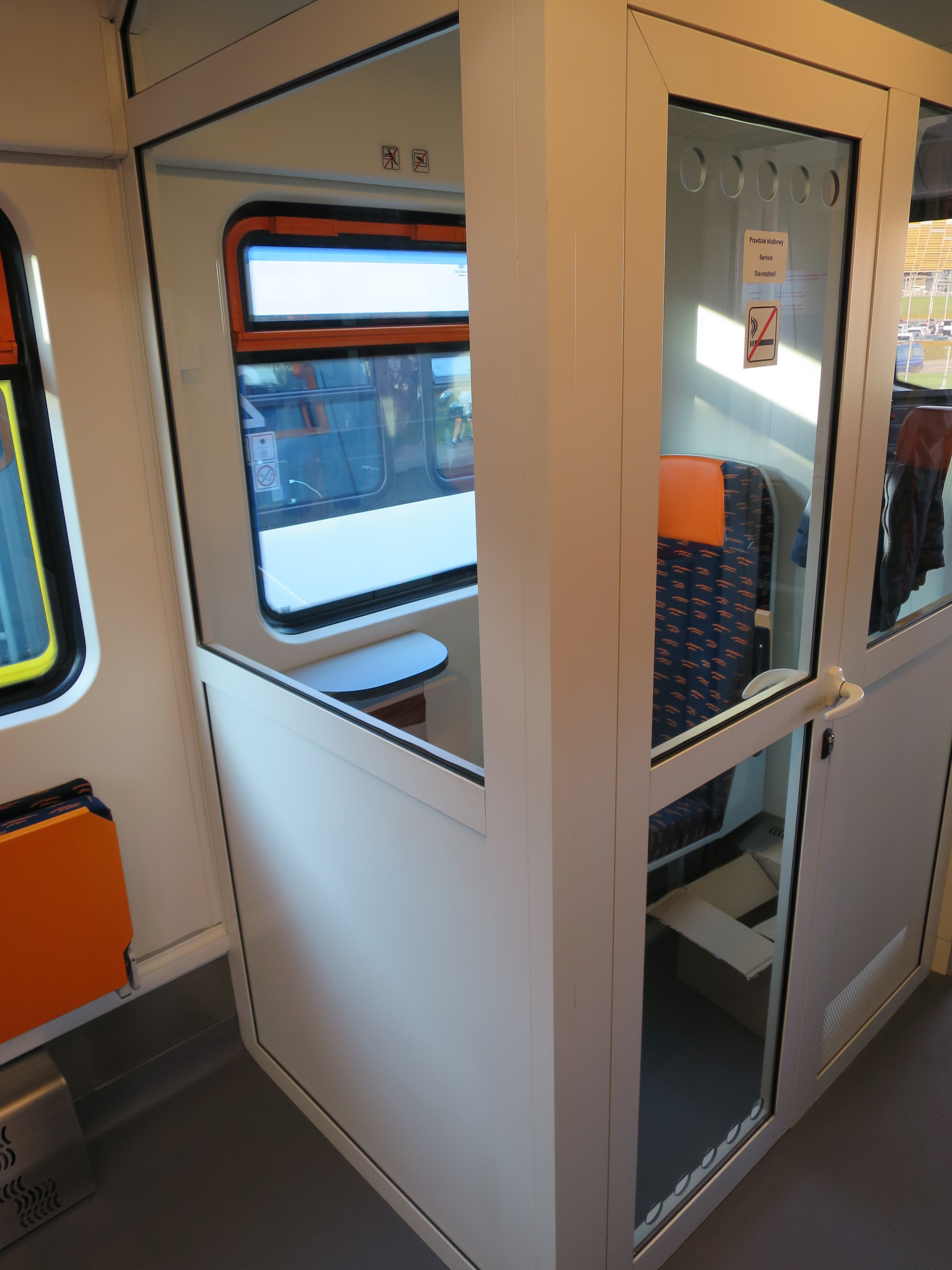 The making of this document was supported by Wikimedia Polska Association, within Wikigrant no. WG 2017-44. EN57FPS